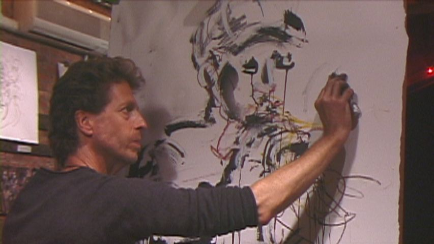 Alan M. Bolle painting Roy Campbell, Jalopy Theater, Brooklyn